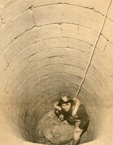 Toby Philpott, future Jabba the Hutt puppeteer, during mining activities in 1968 in the wells of Sandal Castle, a historic ruin in Wakefield, West Yorkshire.